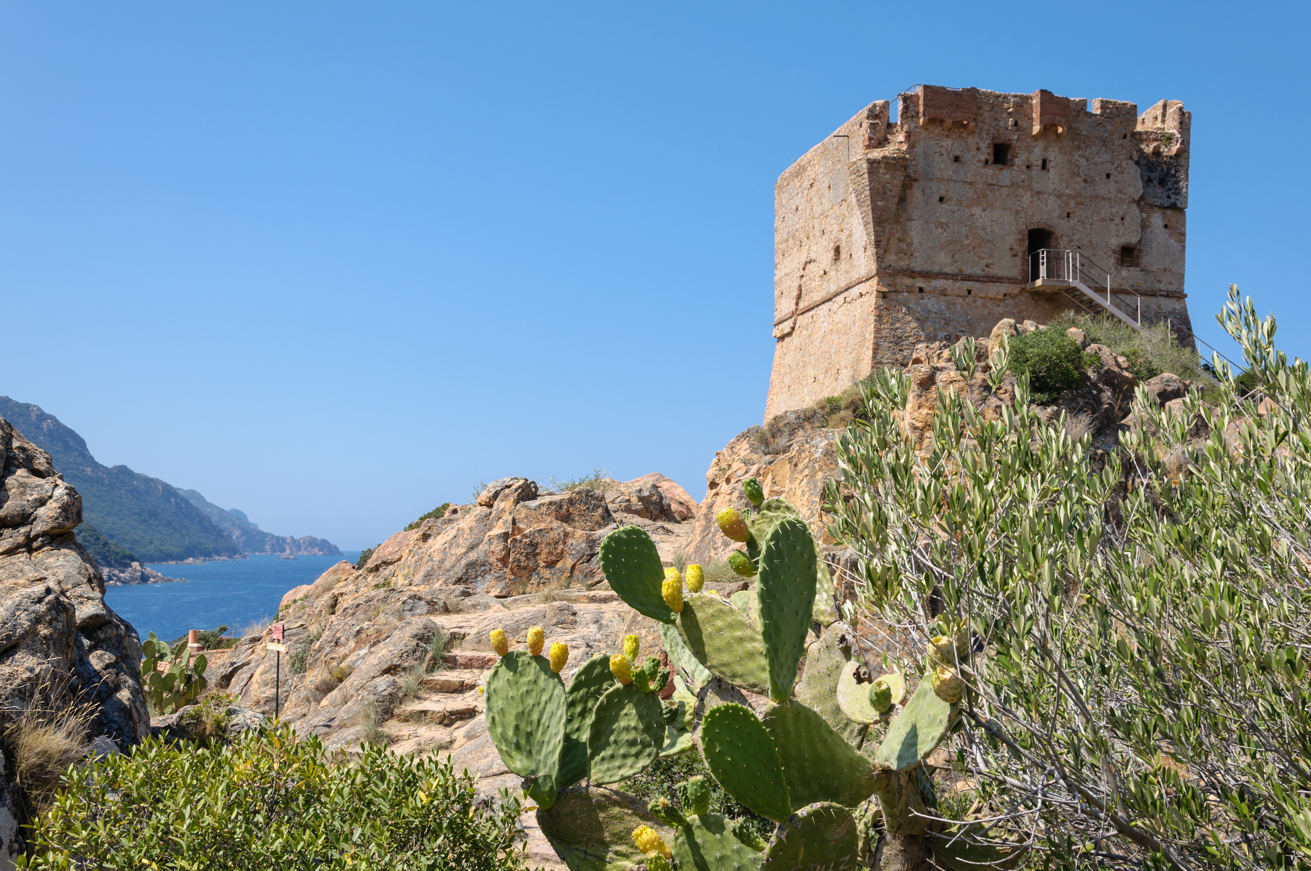 The Genoese tower of Porto overhanging the Gulf of Porto, Ota, Corsica, France. In the foreground, Barbary-figs (Opuntia ficus-indica) and an olive tree (Olea europaea). .